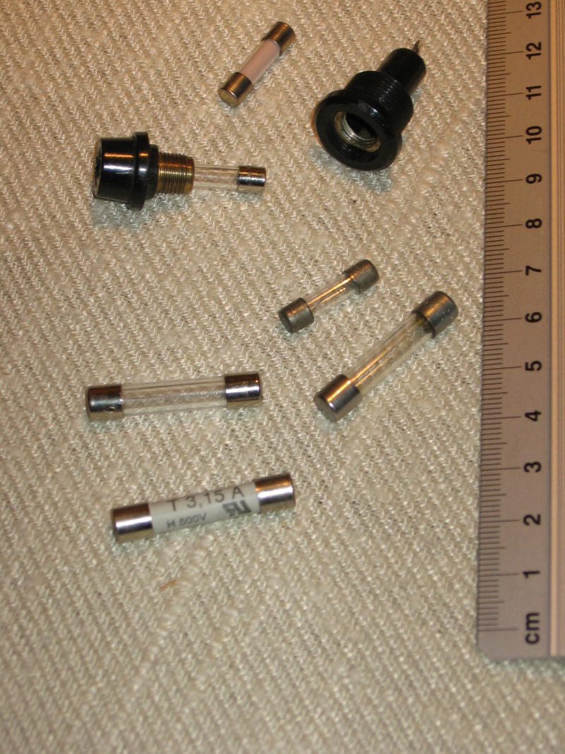 Electronic fuses